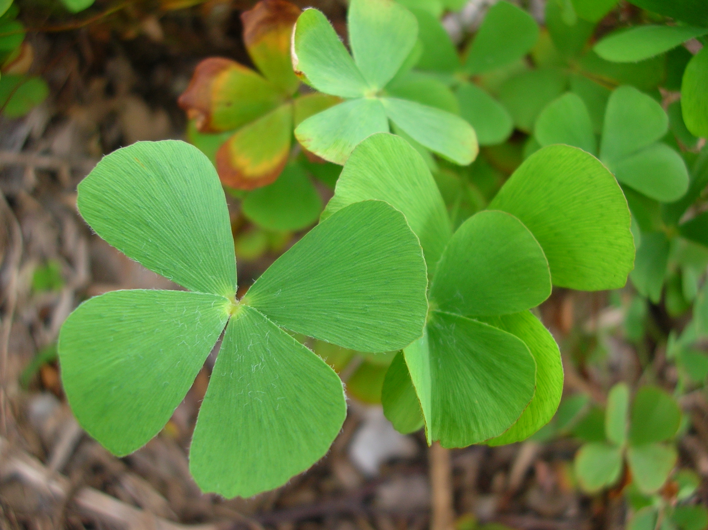 Marsilea villosa (habit). Location: Maui, Maui Nui Botanical Garden